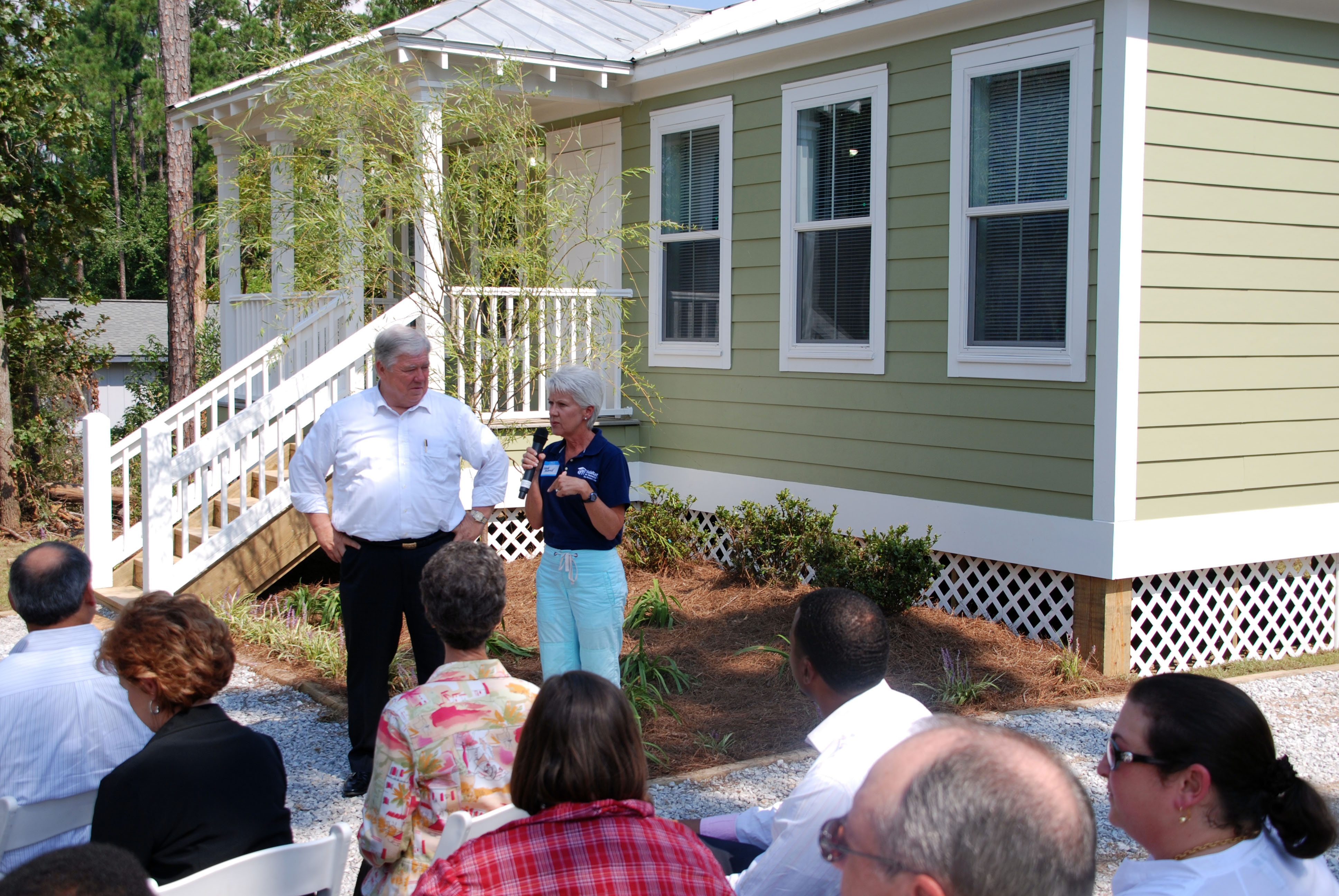 Diamondhead, MS, August 28, 2008 -- Mississippi Gov. Hayley Barbour and Habitat for Humanity's Wendy McDonald participate in an Open House for a Mississippi Cottage newly made permanent. A pre-fabricated and constructed attachment was added to the cottage to make the structure permanent and was designed by FEMA Long Term Community Recovery staff in Mississippi. The cottage is part of FEMA's Alternative Housing Pilot Program, which seeks alternative disaster housing solutions. Kiiva Williams/FEMA.